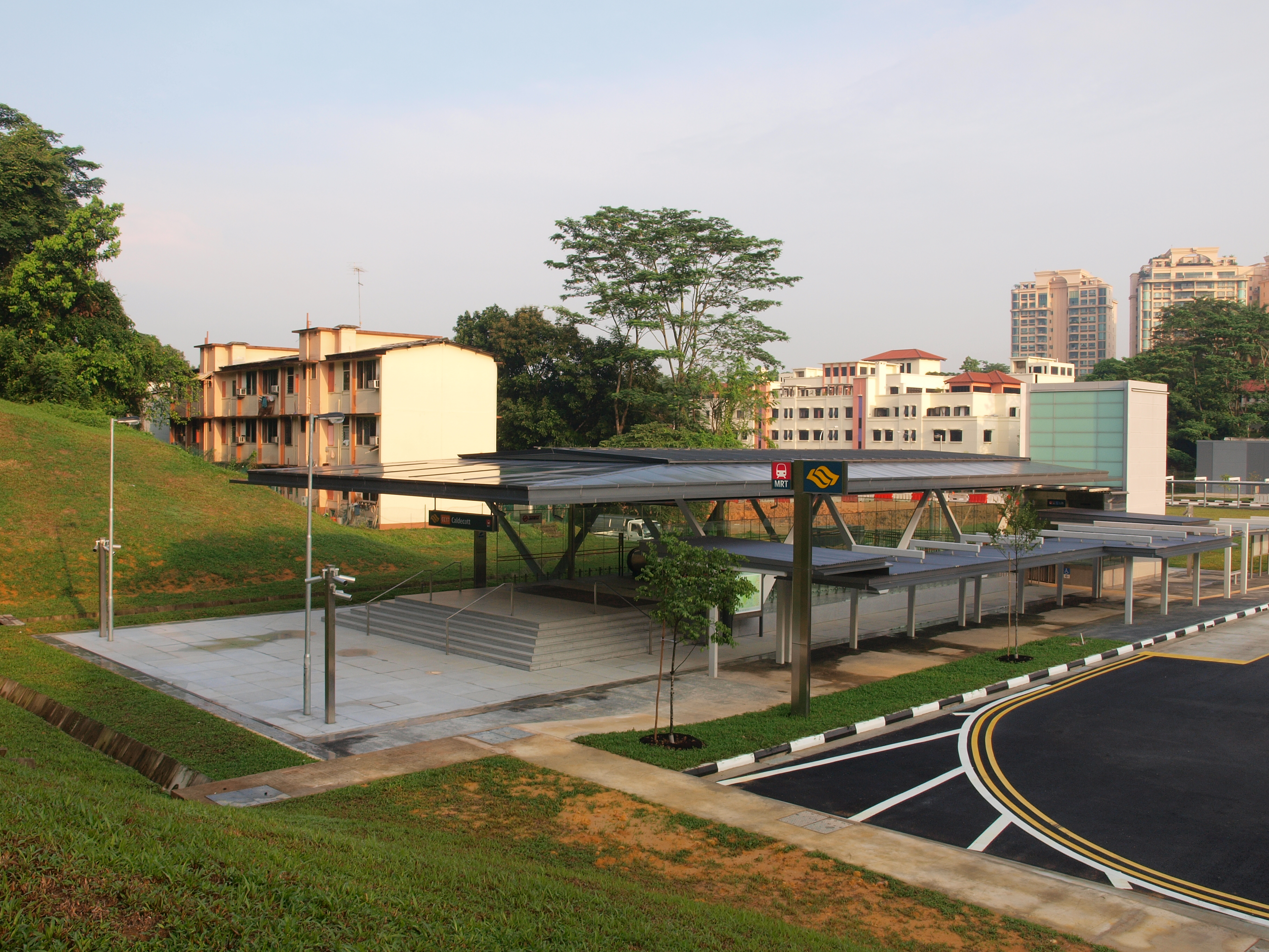 Station exit of Caldecott MRT Station (formerly known as Thomson station).